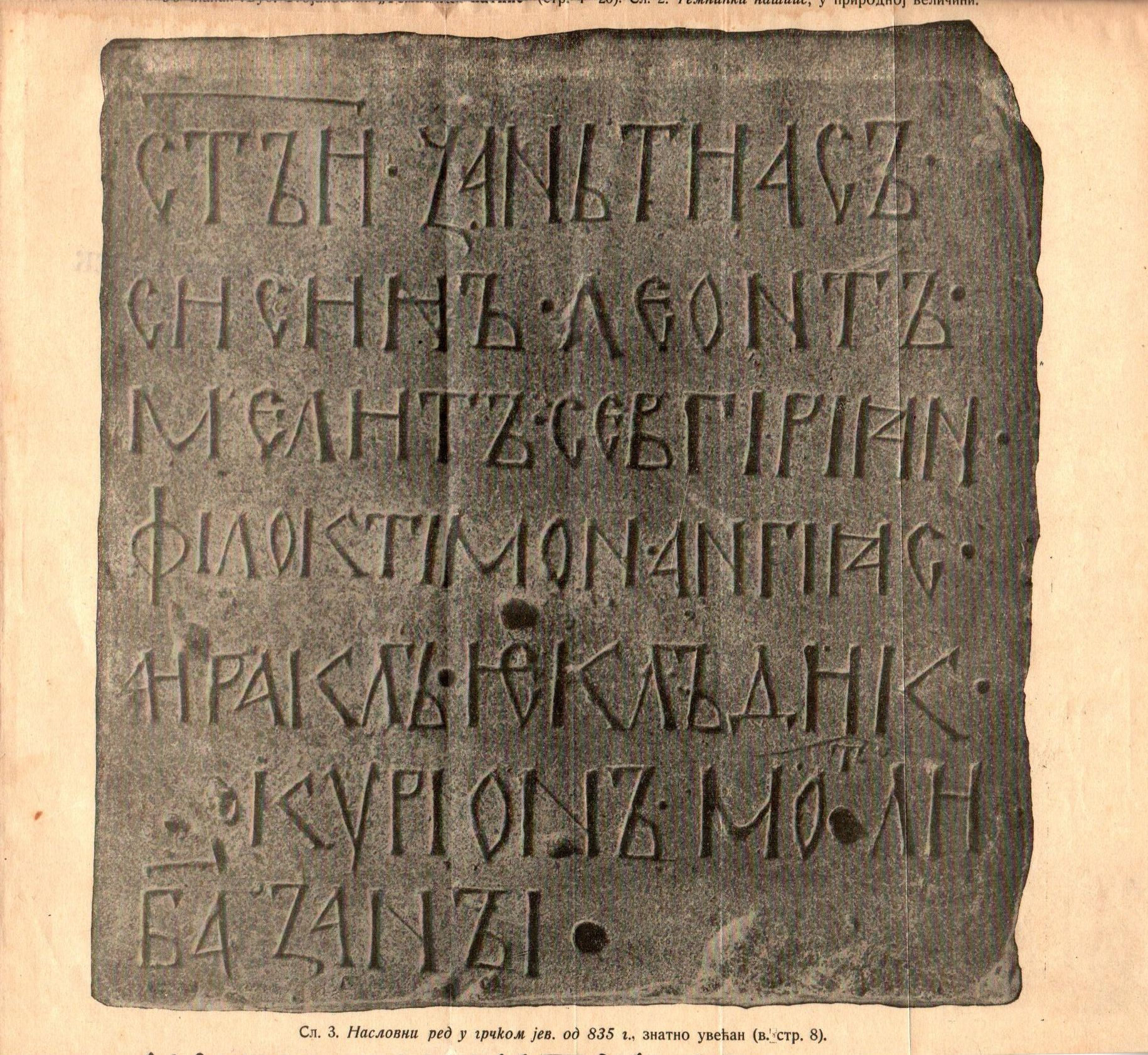 Illustration in Južnoslovenski filolog, 1913, Ljuba Stojanović: Temnićki natpis